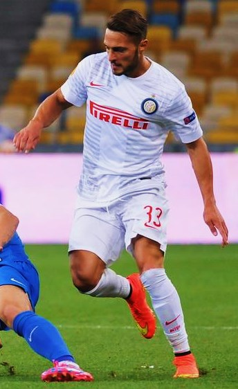 Danilo D'Ambrosio